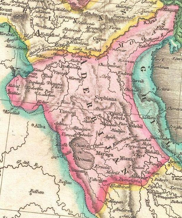 A rare and important 1818 map of Persia by John Pinkerton. Depicts from the Black Sea eastward as far as the Indus Valley, extends north to the Aral Sea and South to the Persian Gulf and the Arabian Sea. Includes the modern day countries of Iran and Afghanistan, as well as parts of adjacent Pakistan, Kuwait, Iraq, Turkey and Arabia. Notes both political and physical geographic elements, including rivers, mountains, under sea dangers, various tribal regions, cities, ruins, and canals. In particular, notes the ruins of both Babylon and Persepolis. Drawn by L. Herbert and engraved by Samuel Neele under the direction of John Pinkerton. The map comes from the scarce American edition of Pinkerton’s Modern Atlas, published by Thomas Dobson & Co. of Philadelphia in 1818.